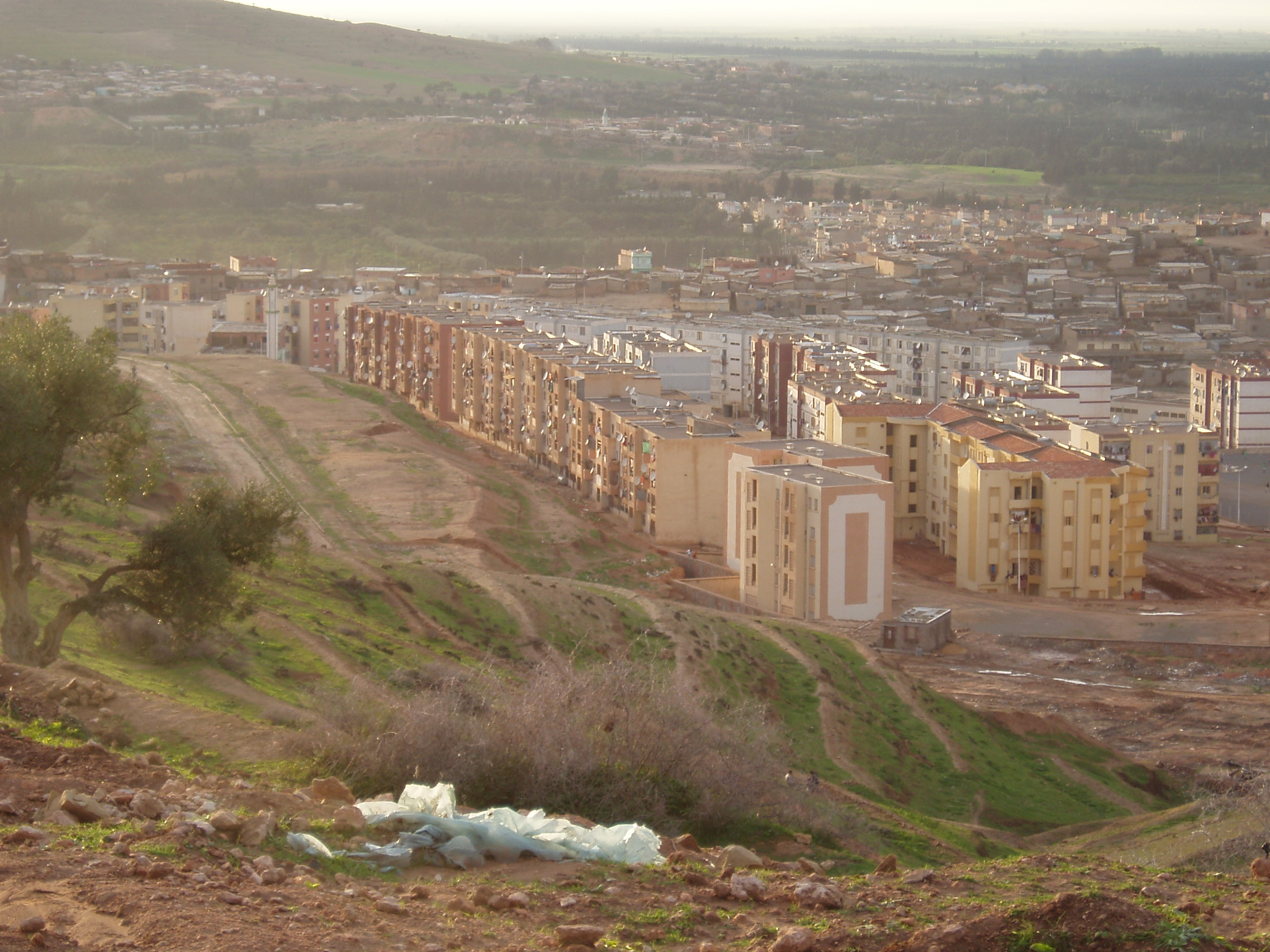 Mohammadia, Mascara Ville en Algérie